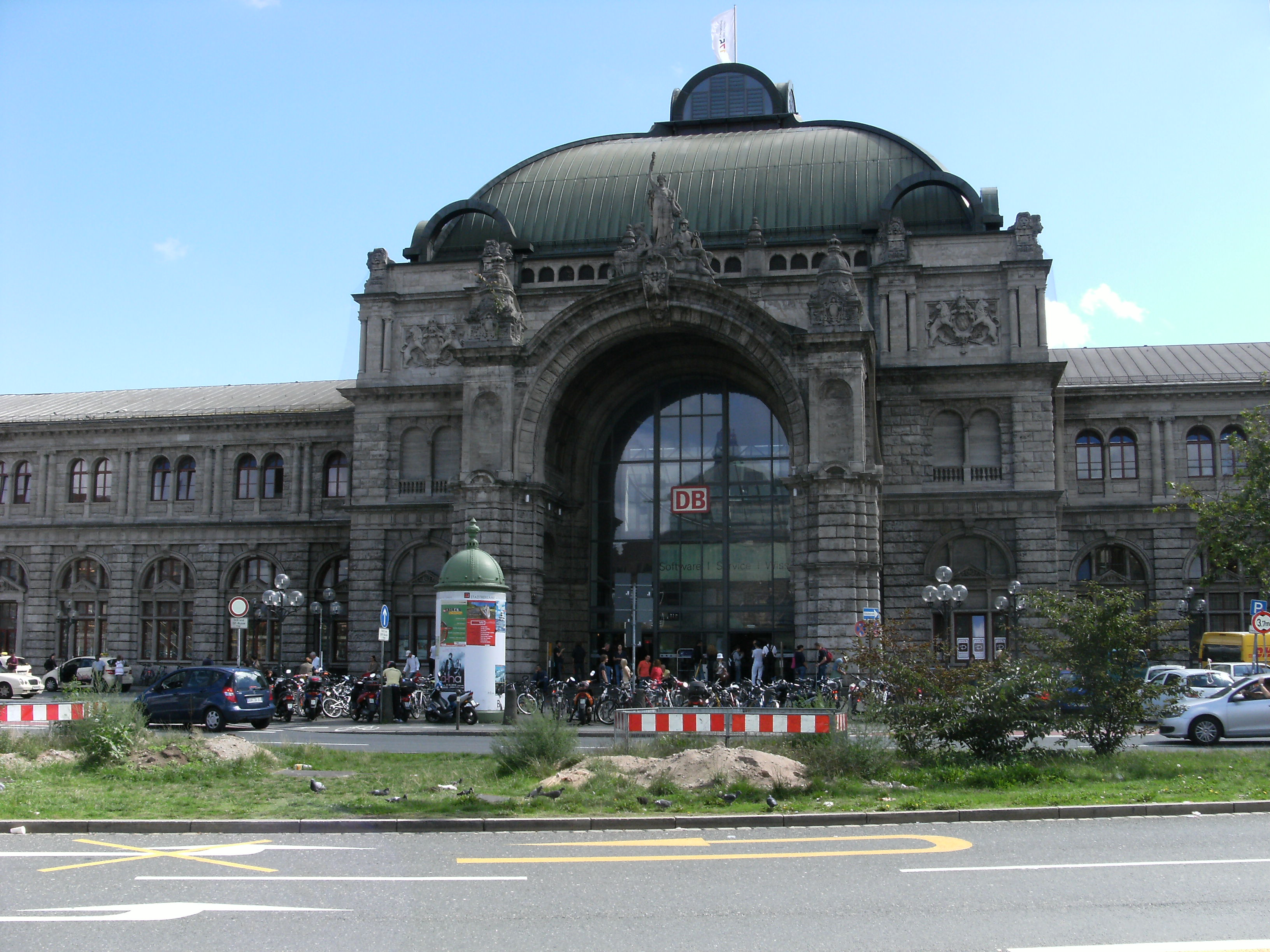 Train station, Nürnberg.